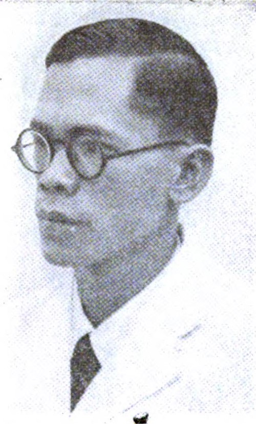 Portrait of A. Djaelani as the member of the People's Representative Council in 1950.